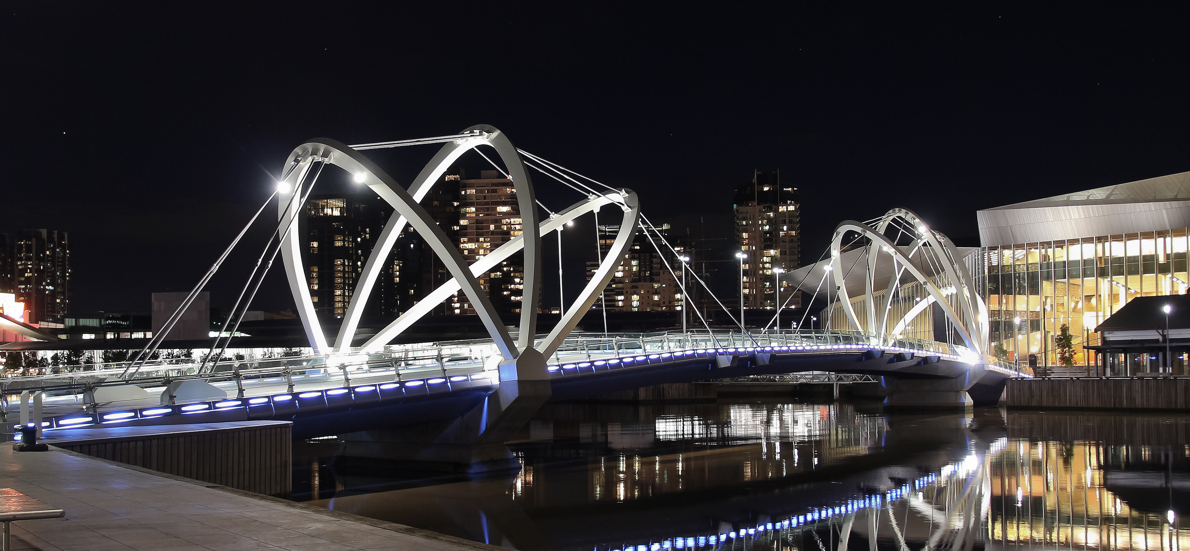 Night View of Grimshaw Architects Seafarers Footbridge at South Wharf, Melbourne